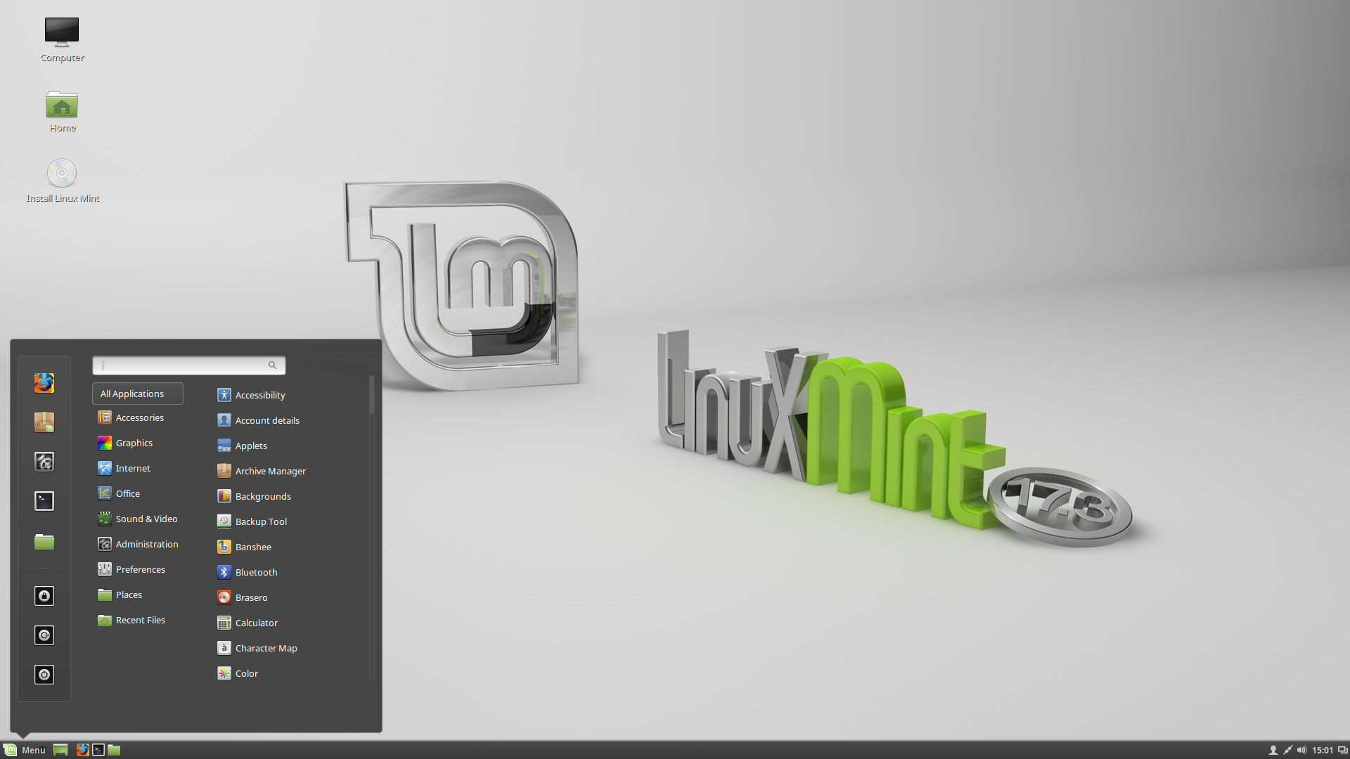 Linux Mint 17.3 in English screenshot